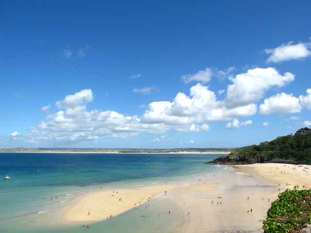 An image of Carbis Bay, Cornwall, taken from St. Ives.